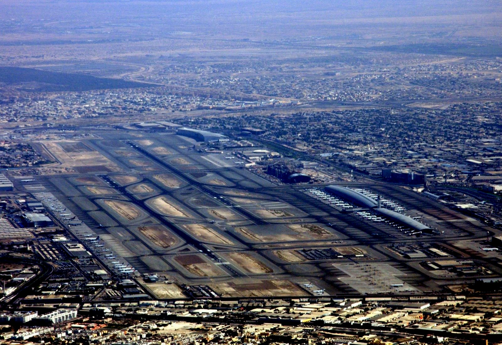 Overview of Dubai International Airport taken shortly after departure